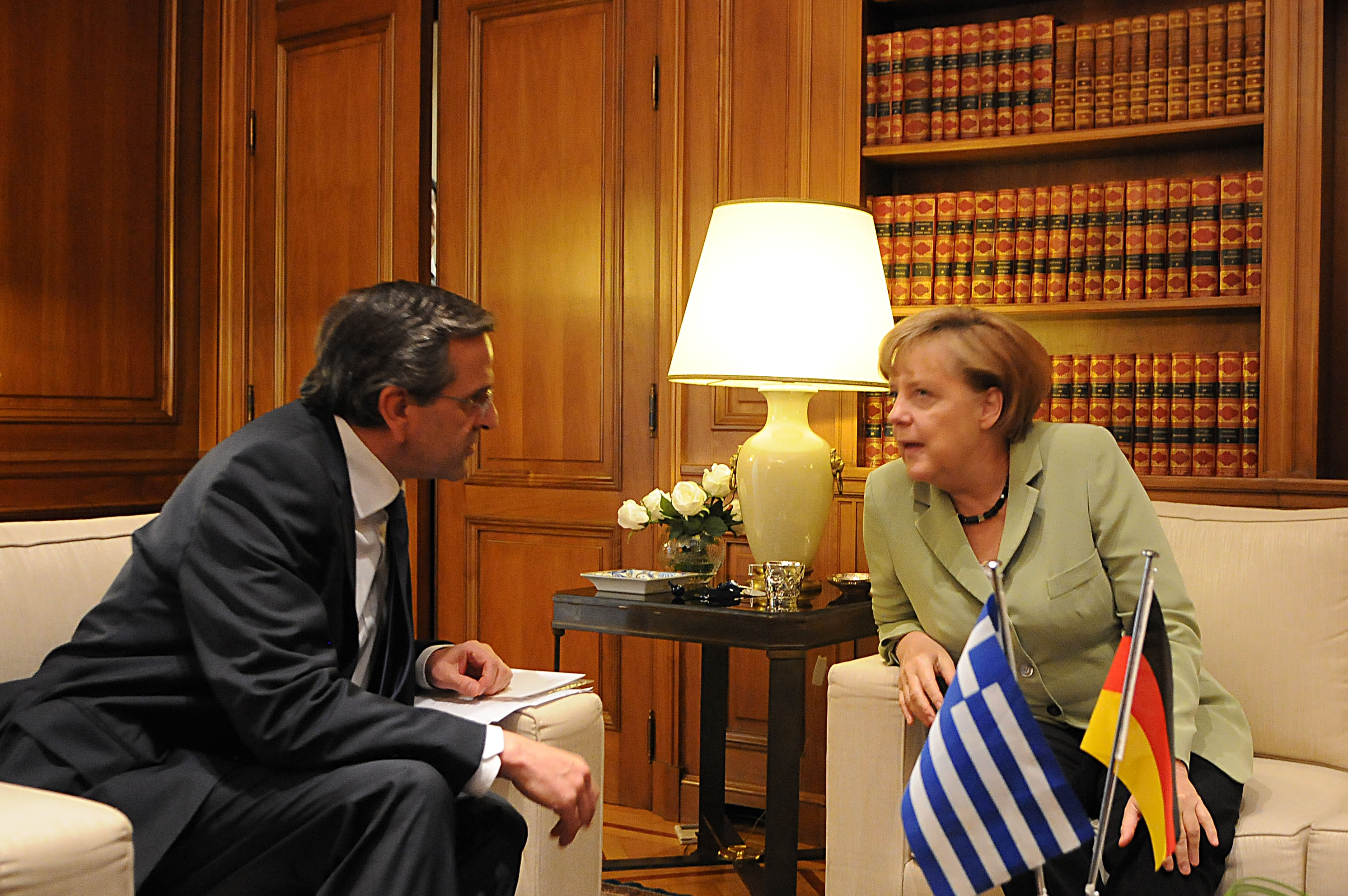 Angela Merkel with Antonis Samaras in his office